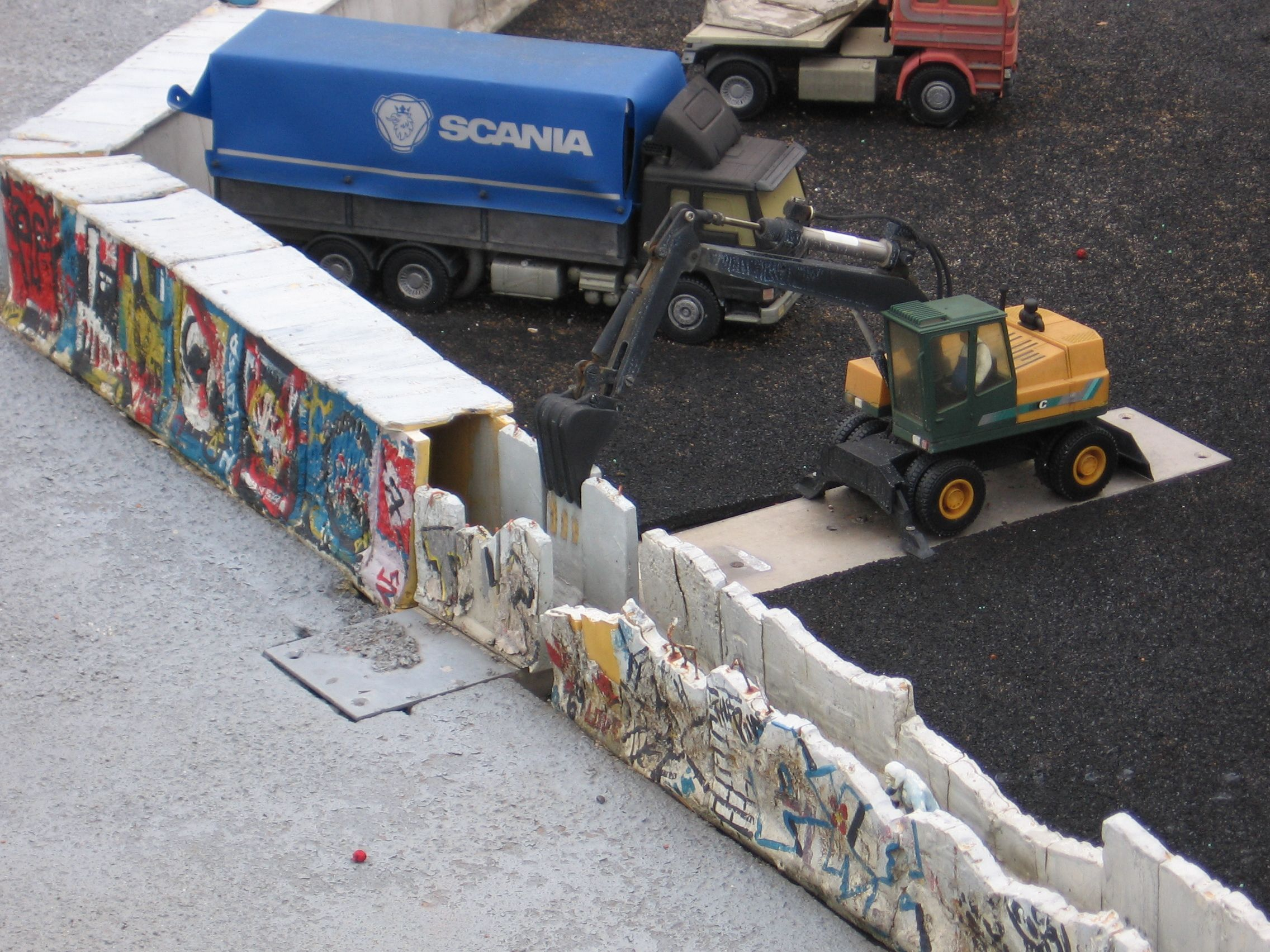 Mini Europe Park in Brussels, Belgium: Model of the falling of the Berlin wall, Germany.